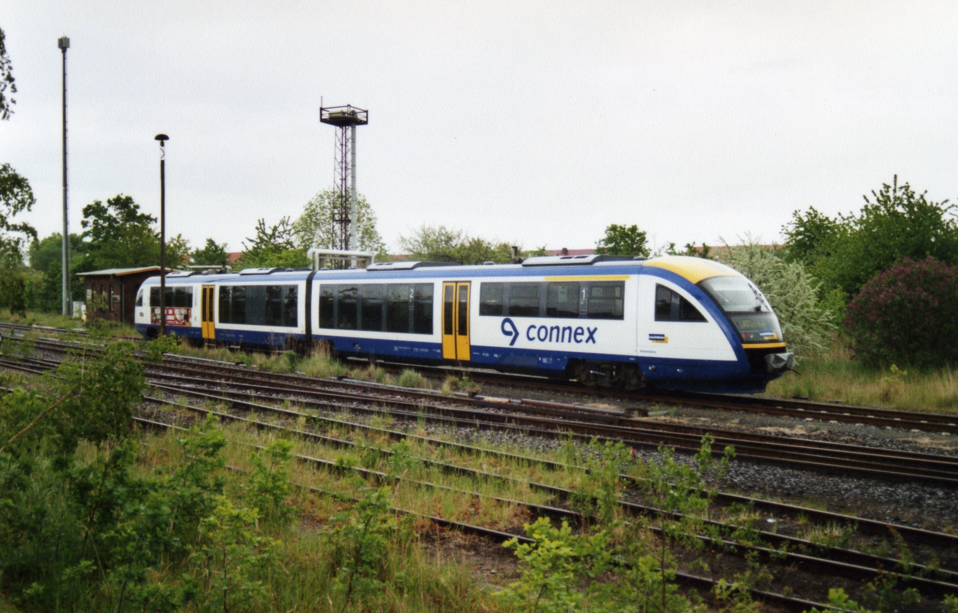 This image shows a multiple unit class 642 of the Lausitzbahn-railway-line Zittau - Görlitz entering the station in Hagenwerder.